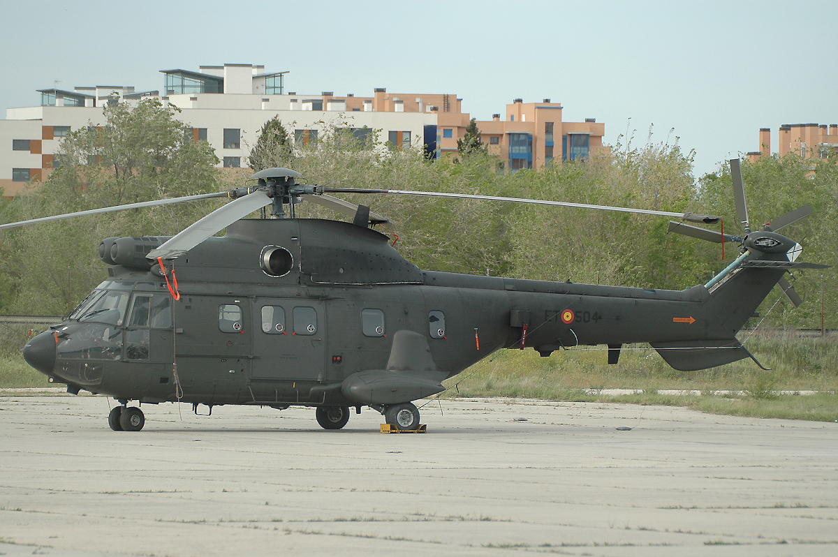 Model: Aerospatiale AS-332B1 Super Puma Register Number: HT21-06 / ET-504 (cn 2202) Place: Madrid, Spain - Cuatro Vientos Airport (LECU / LEVS) Comments: Spanish Army helicopter of BHELMA IV, based at El Copero Base (Sevilla)